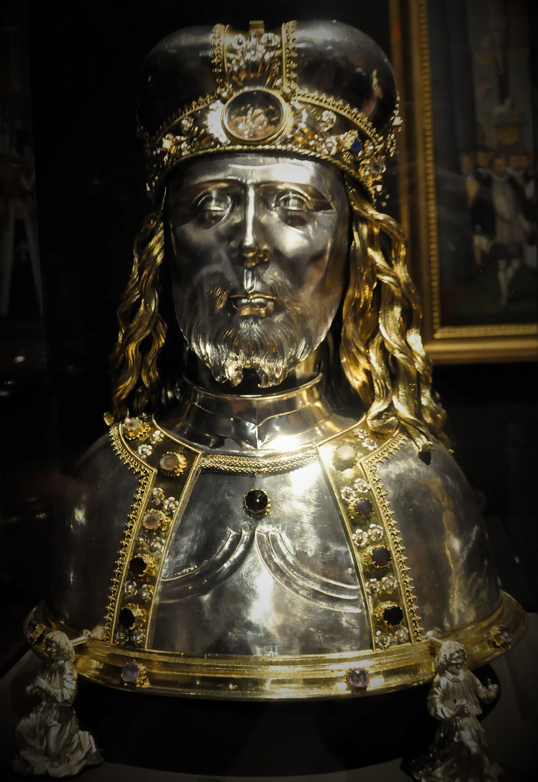 Reliquary bust of St. Wencelslaus given to Prague Cathedral by King Wladislaus II of Bohemia and Hungary. Made shortly before 1500.